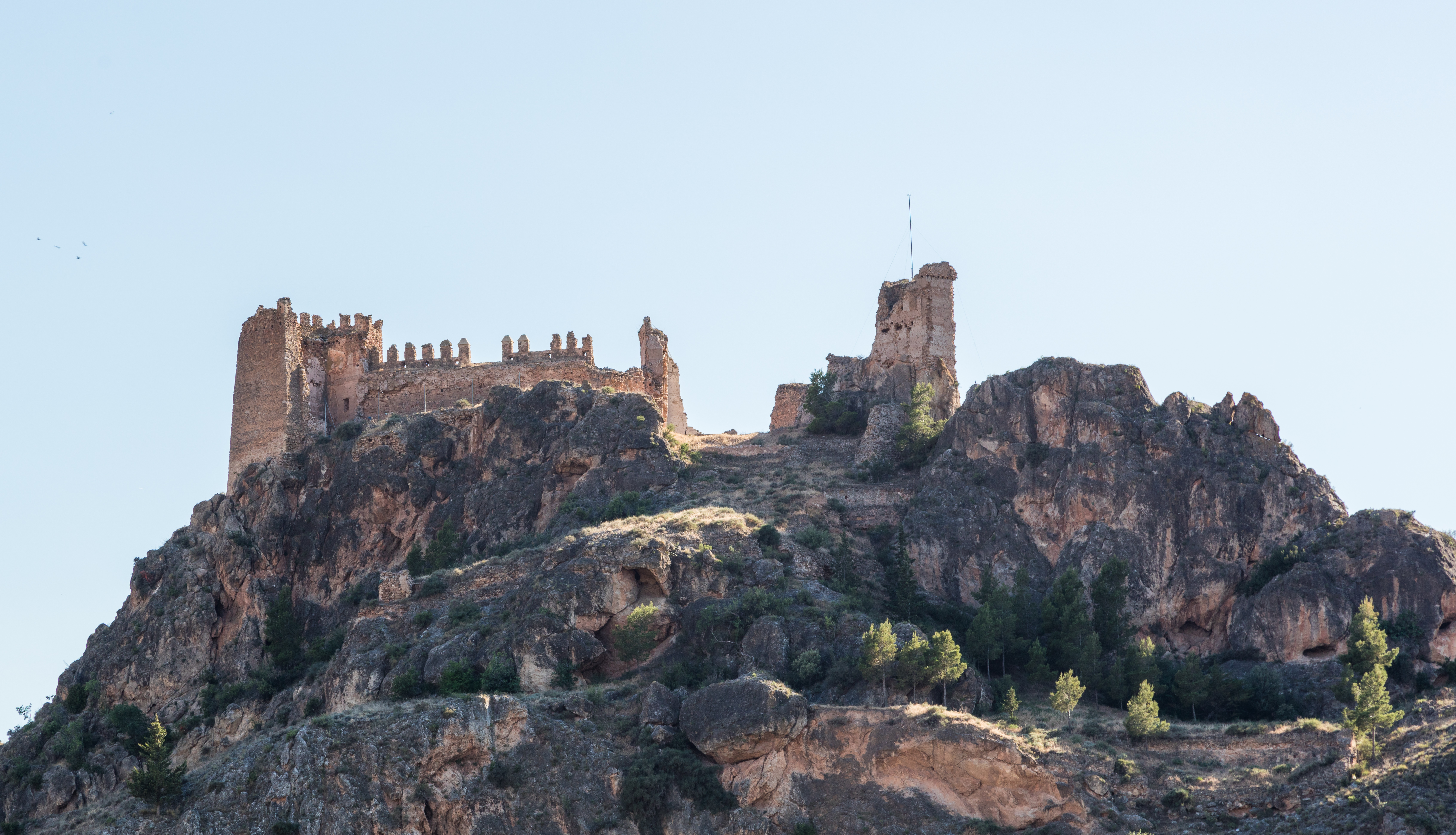 Castle, Arándiga, Zaragoza, Spain